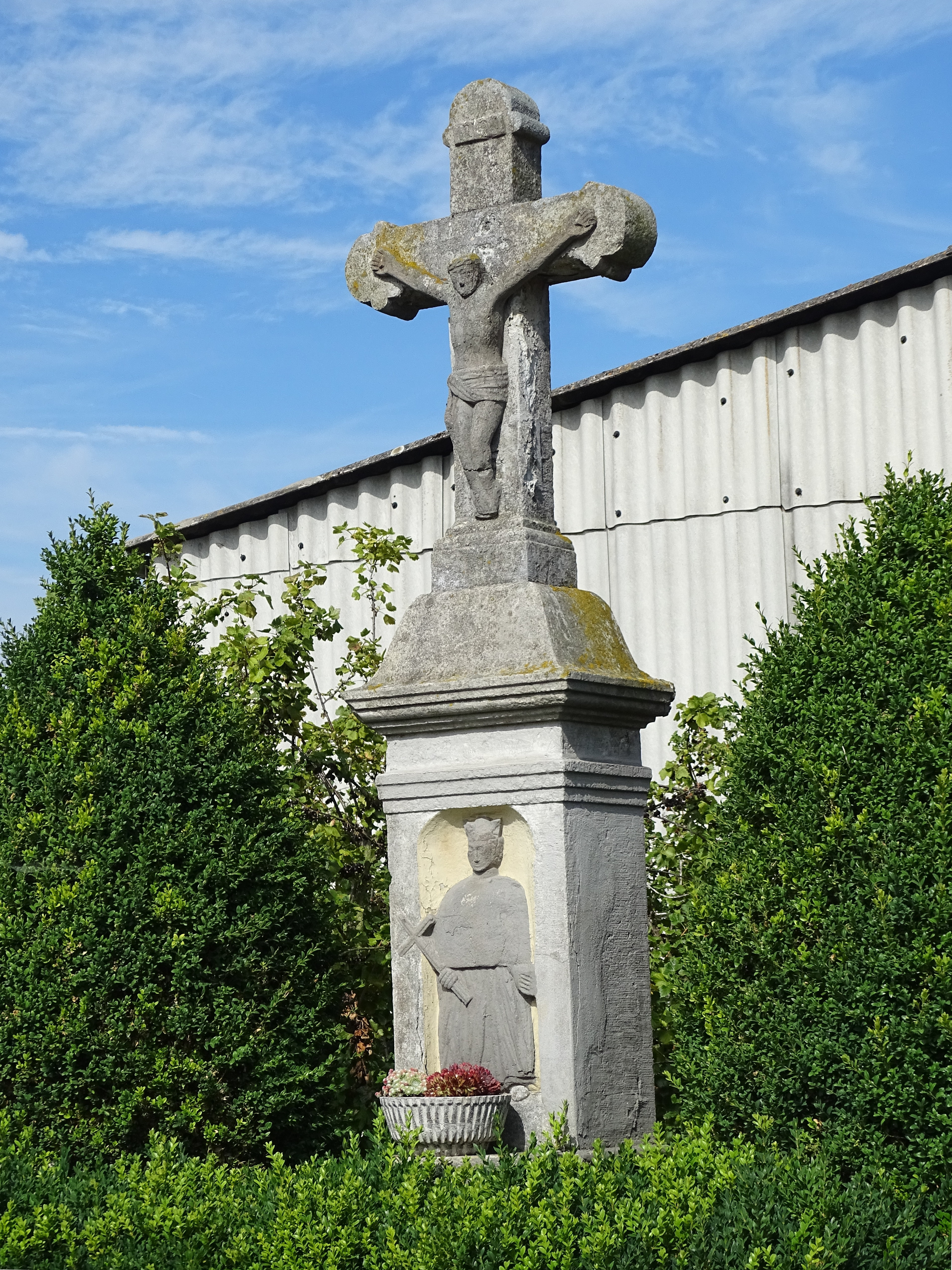 Wayside cross in Ersdorf, Am Viethenkreuz.